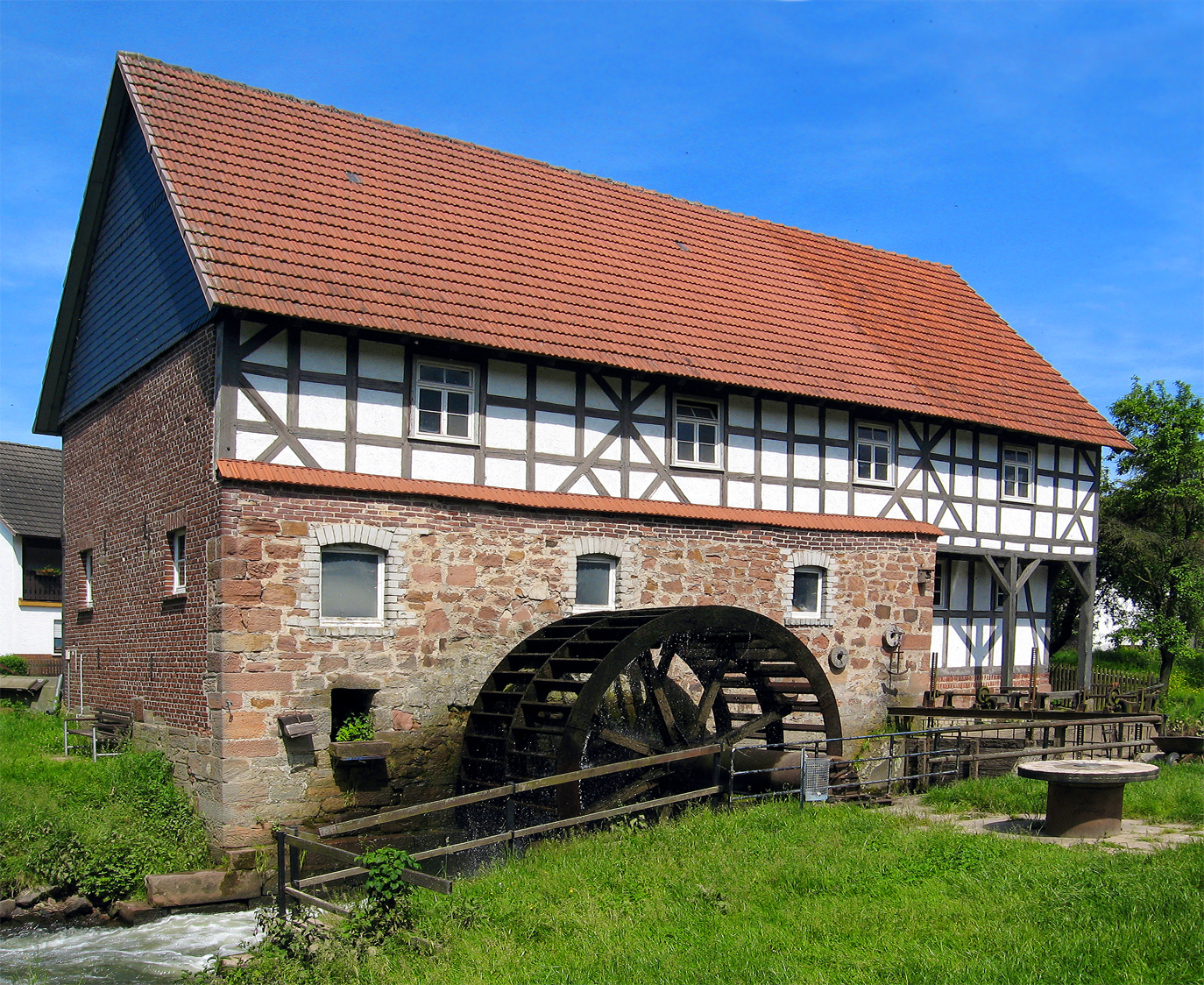 The water mill of Argenstein (village south of Marburg)